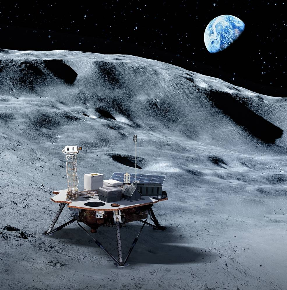 Artemis program - Commercial landers carry NASA-provided science and technology payloads to the lunar surface